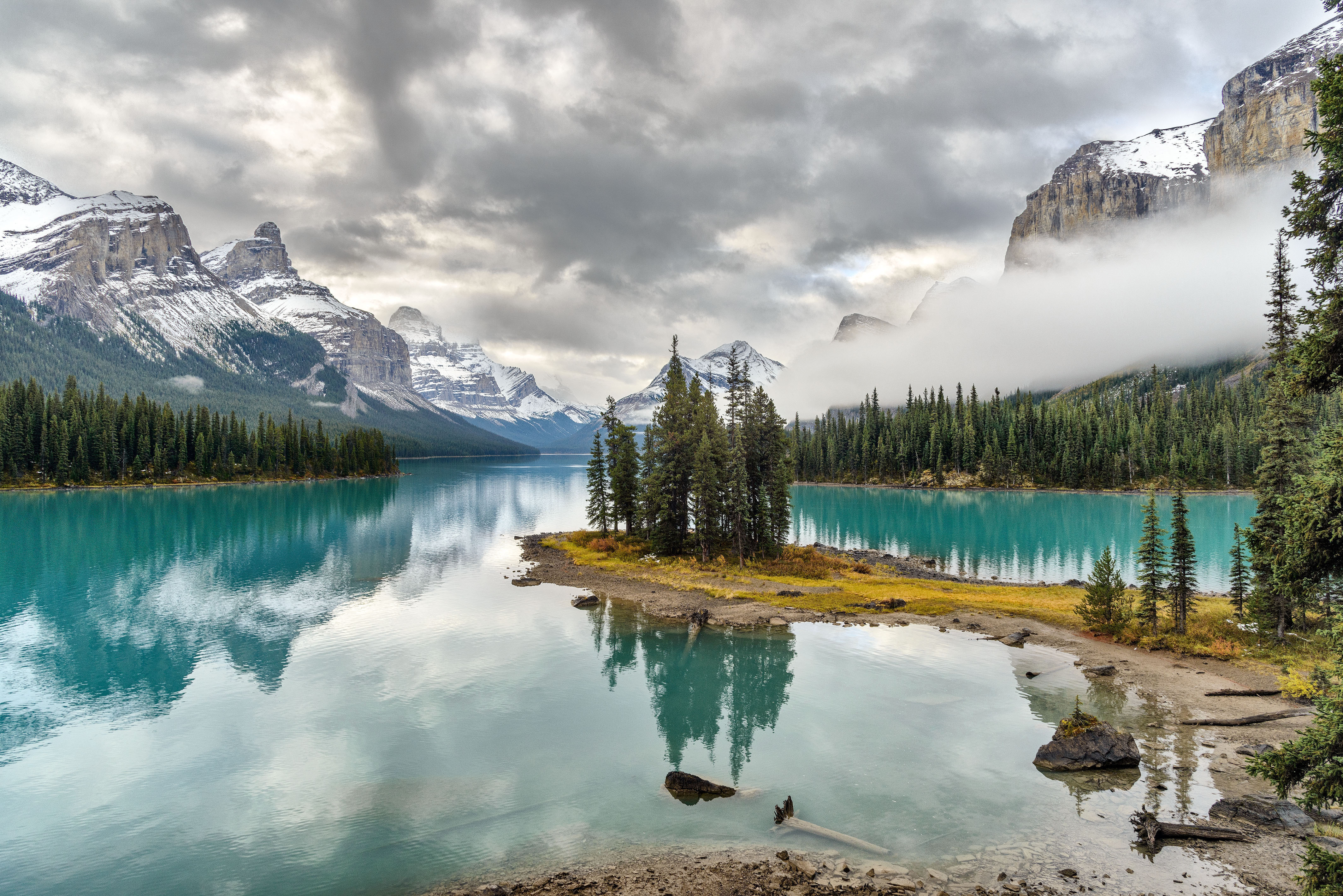 Spirit Island, Jasper National Park, Canada